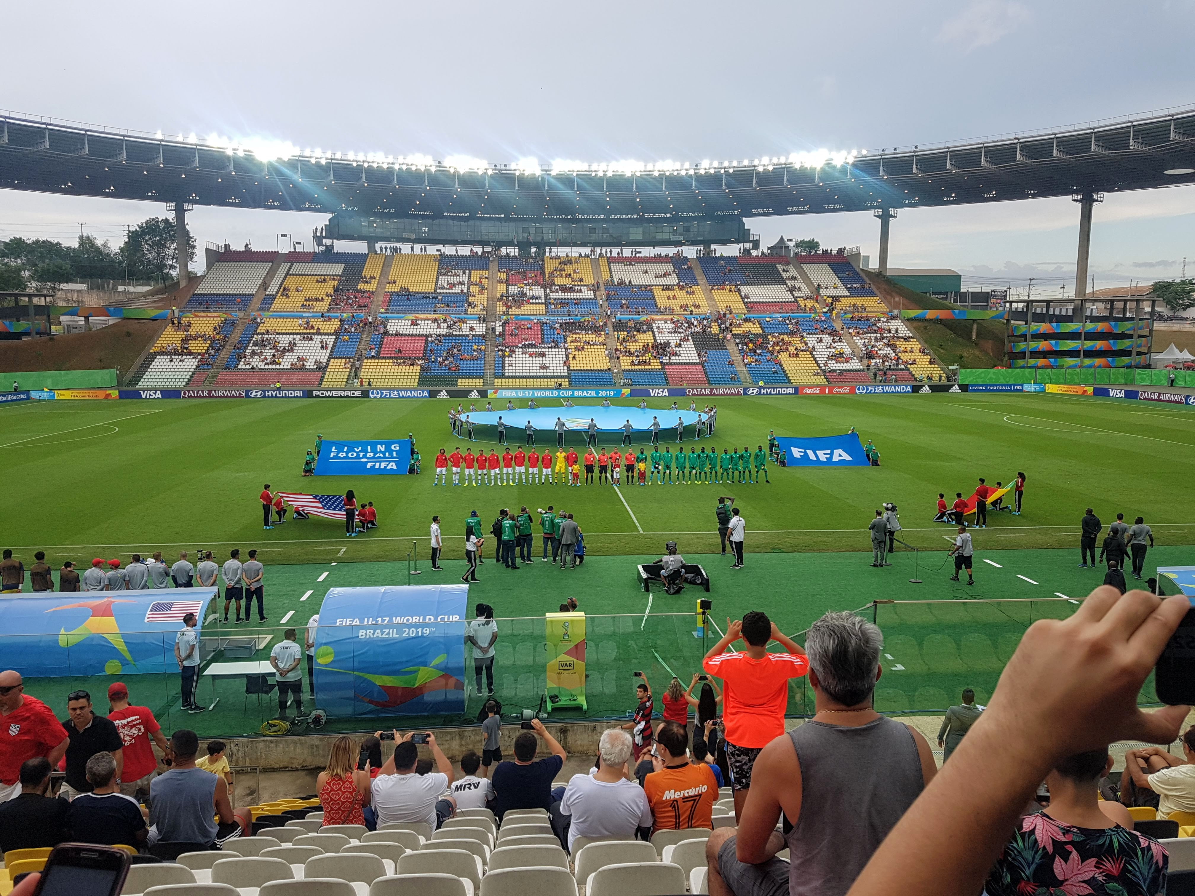 USA and Senegal teams at Kleber Andrade stadium during 2019 FIFA U17 World Cup.